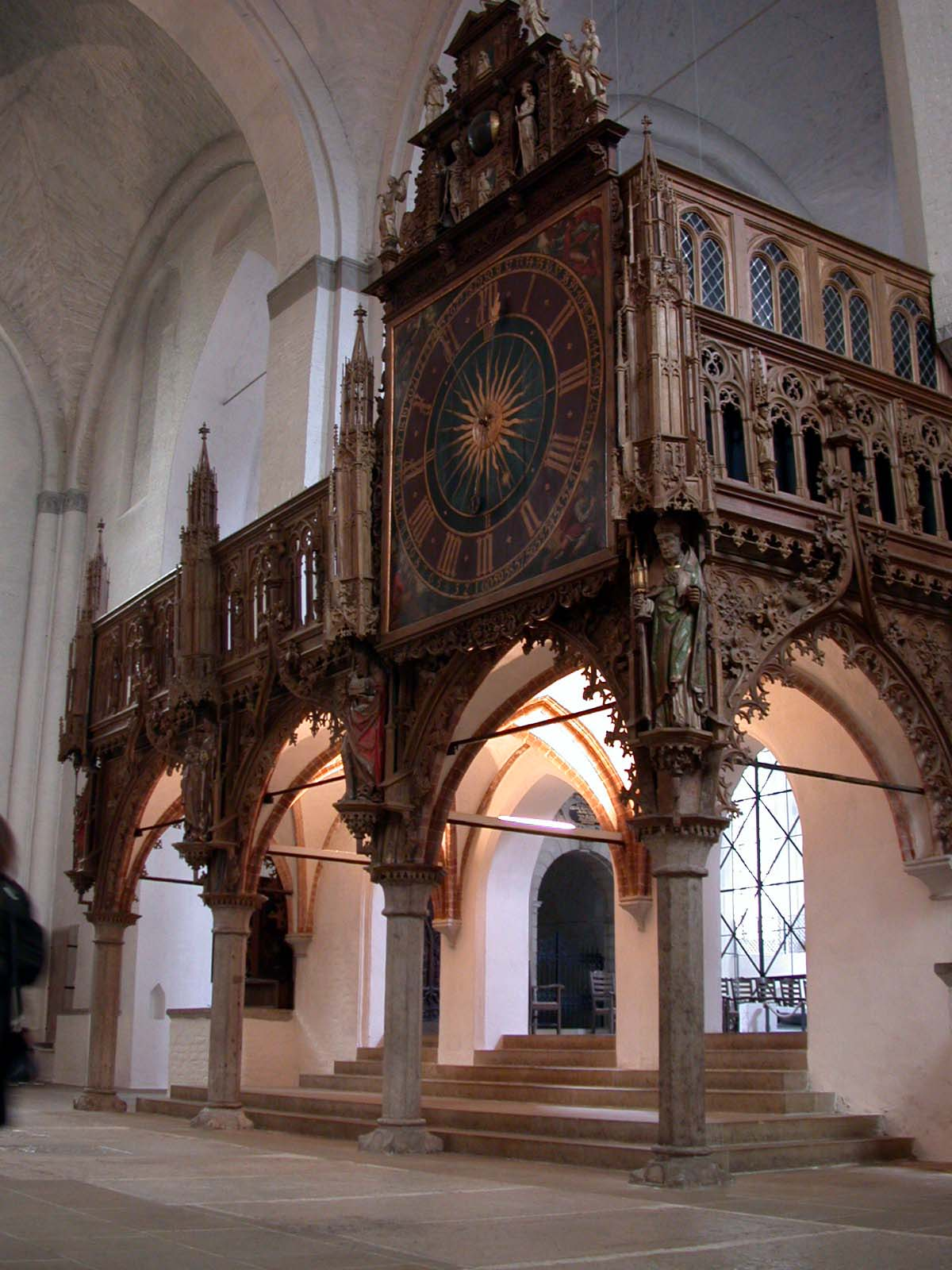 Lübeck Cathedral Interior